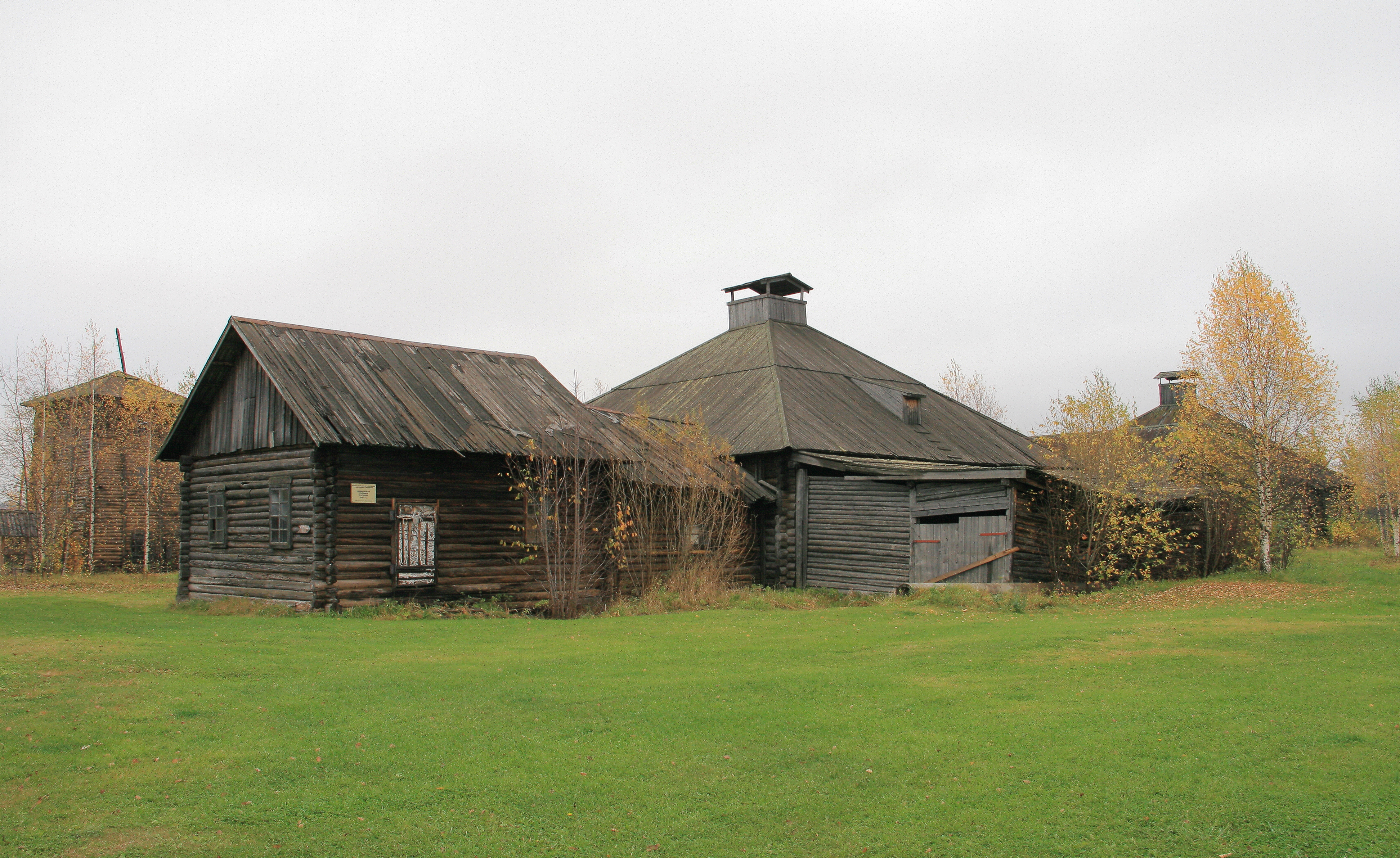 Ivan's Salt Pan, Ust-Borovaya Saltworks, Solikamsk, Perm Krai